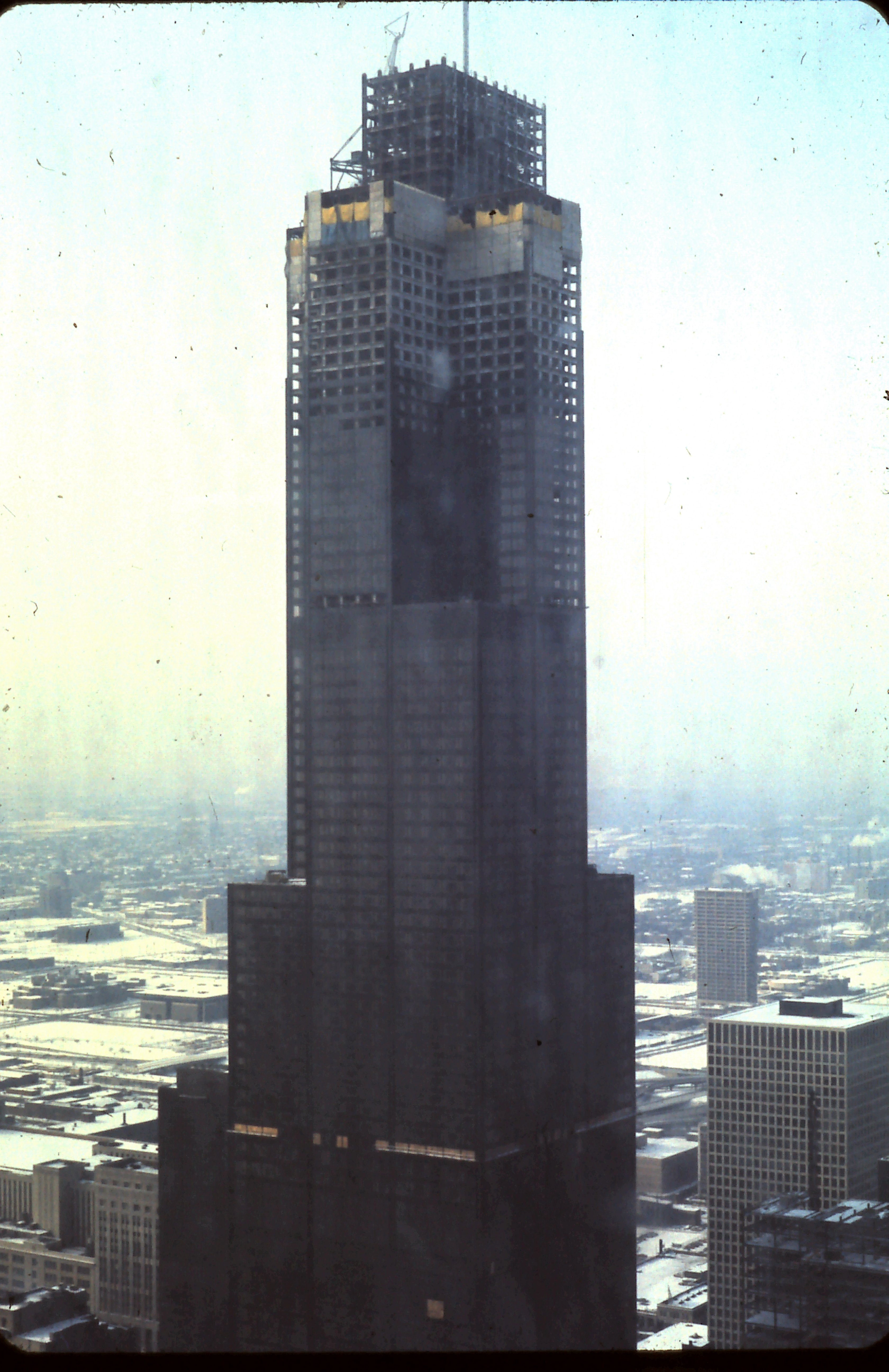 From the old First National Bank Building before the Sears tower was finished.